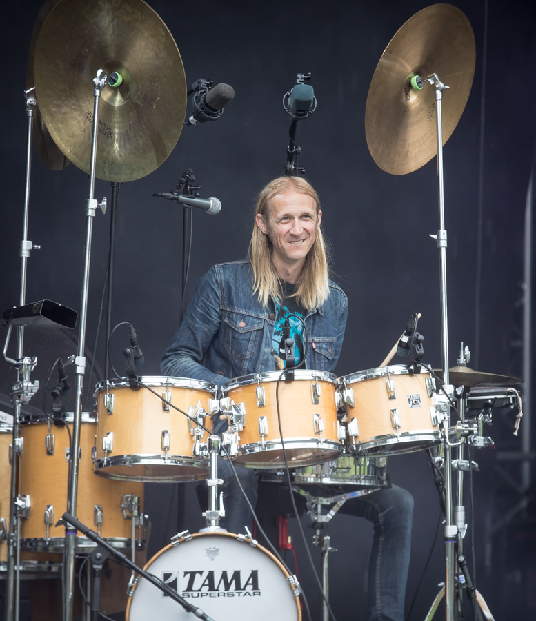 Olaf Olsen with Band of Gold at the main stage in the Vigeland Park. The concert was part of Piknik i Parken and took place on 23. June 2017 in Oslo. Lineup: Nina Elisabeth Mortvedt (vocal and keyboard), Nikolai Hængsle (bass guitar), Olaf Olsen (drums), David Wallumrød (keyboard) and Peter Estdahl (guitar).